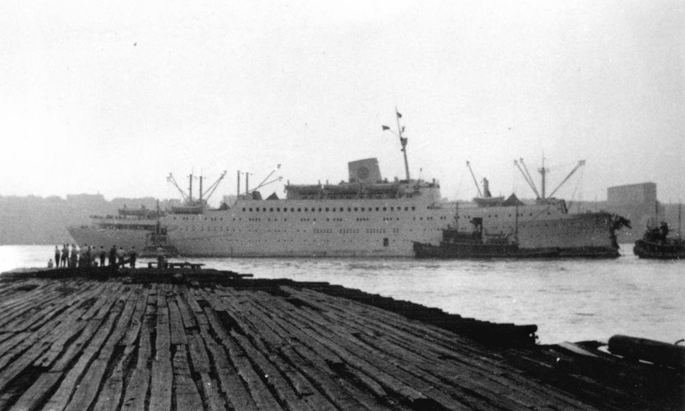 Stockholm (ship) M.V. Stockholm after collision with Andrea Doria, at New York. (Description supplied with photograph.).